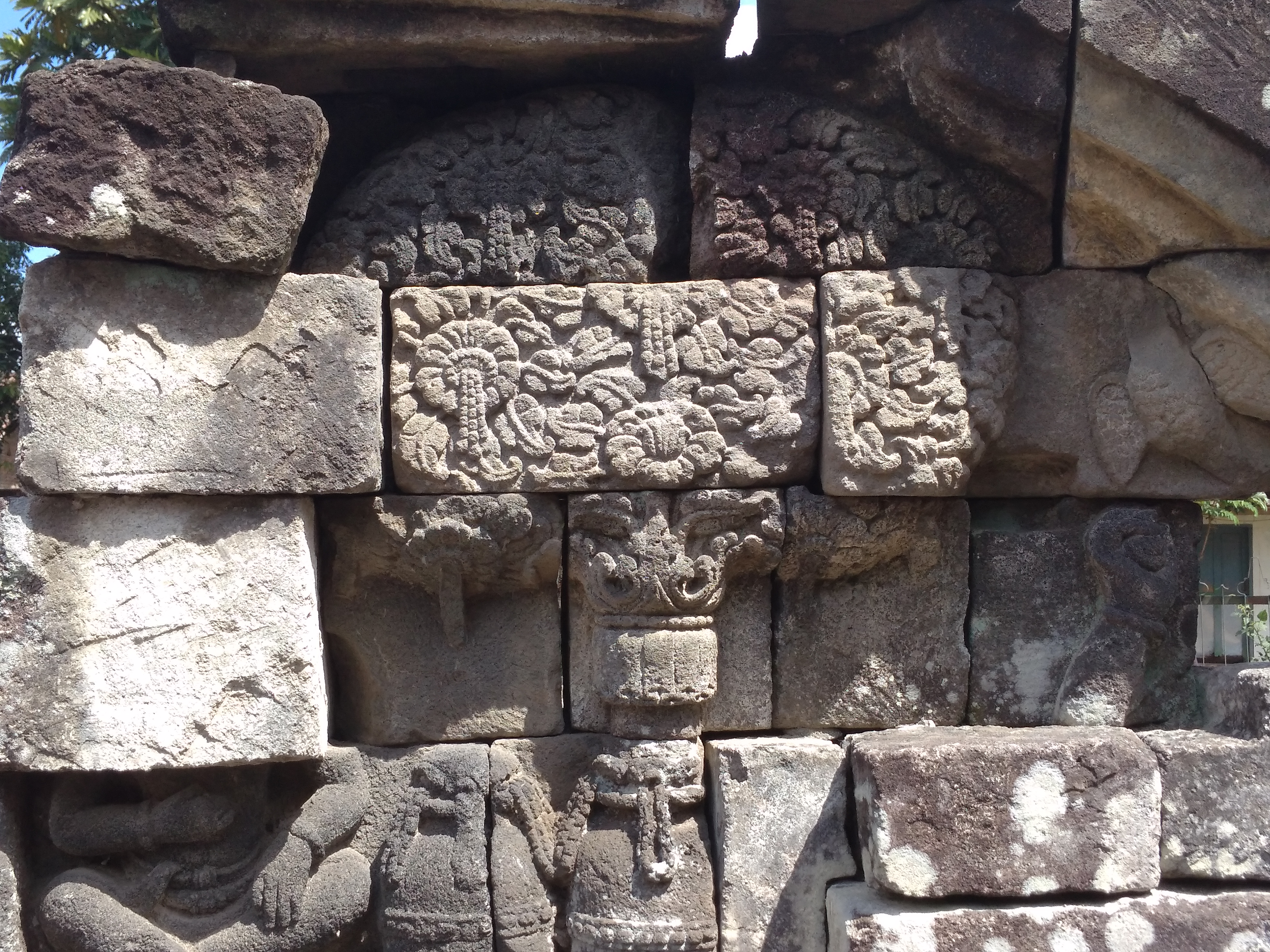 Kalpataru relief at Gana Temple